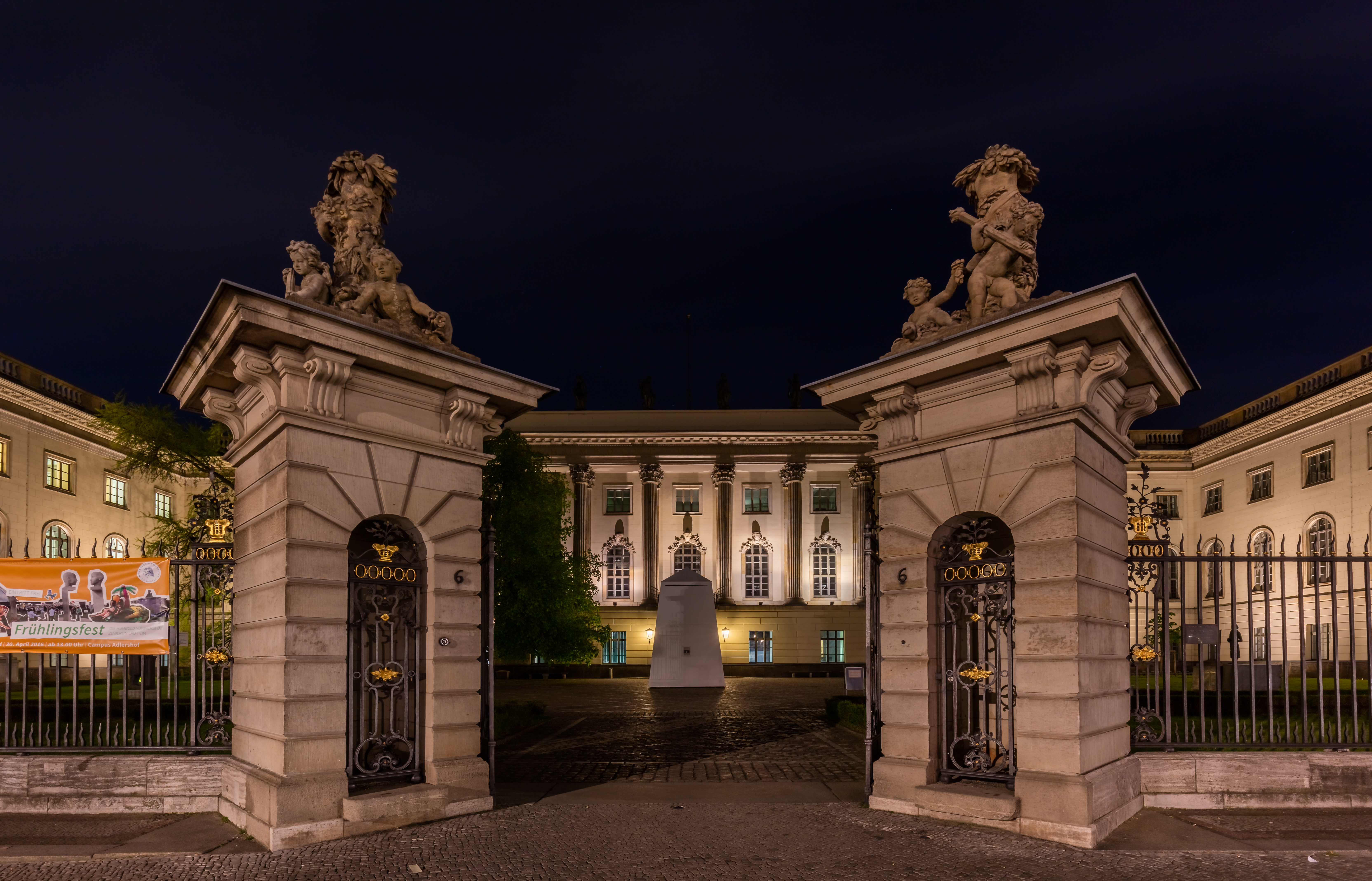 Main building of the Humboldt University, Berlin, Germany